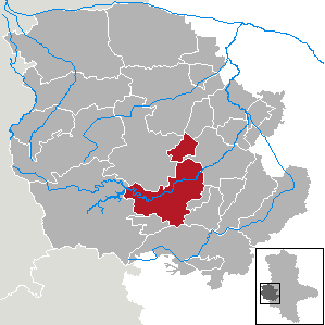 VG Thale in Saxony-Anhalt - District Harz